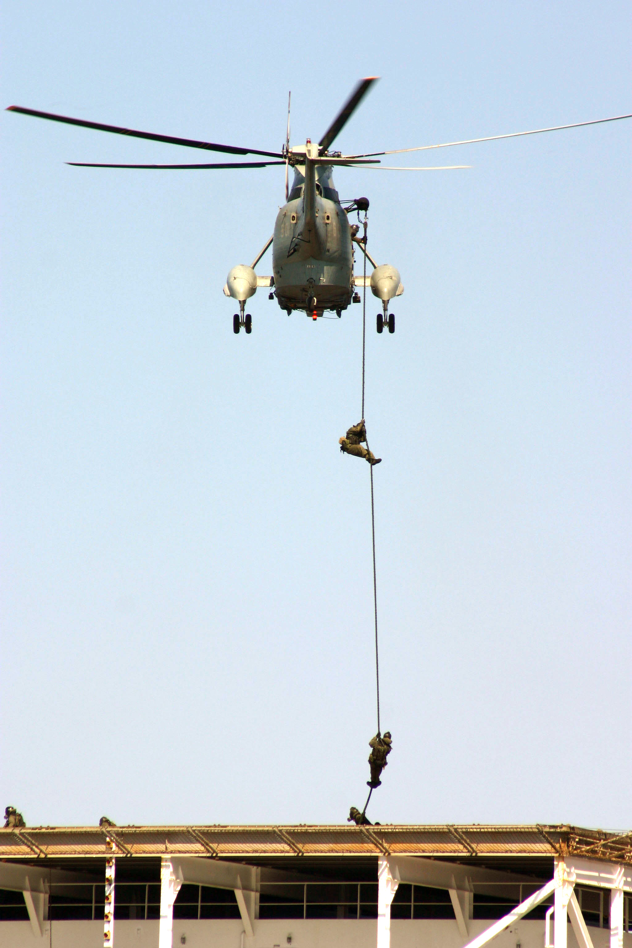 Italian Special Forces personnel FAST rope from an Italian SH-3D Sea King helicopter down to the deck of the U.S. Military Sealift Command (MSC) maritime prepositioning ship USNS PFC Eugene A. Obregon (T-AK-3006), during exercise Clever Sentinel 2004 in the Mediterranean Sea on 22 April 2004. The exercise was a multilateral maritime interdiction training exercise led by Italy in the Mediterranean Sea. The exercise was part of the U.S. launched Proliferation Security Initiative (PSI), a collaborative effort to take active measures against trafficking in WMD, their delivery systems and related materials to and from states and non-state actors of proliferation concern around the world. Five nations, including the U.S., provided assets for the exercise and several nations sent observers to the exercise.